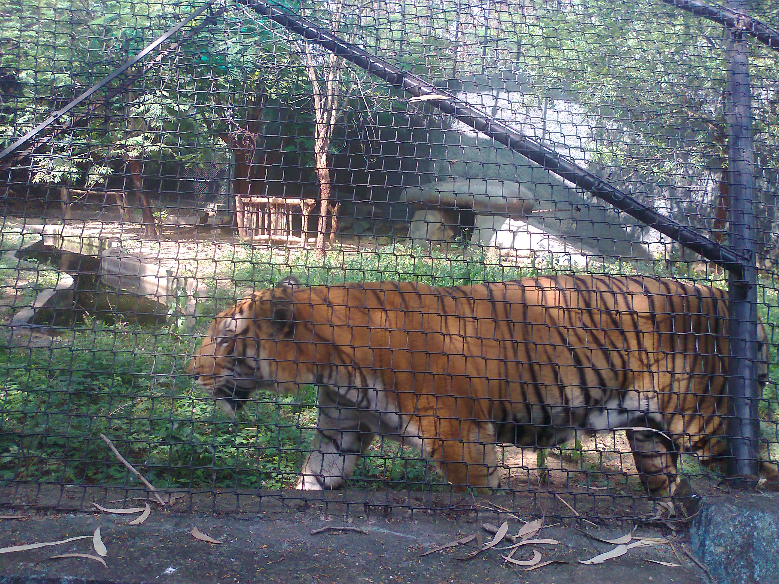 Taken in 2013